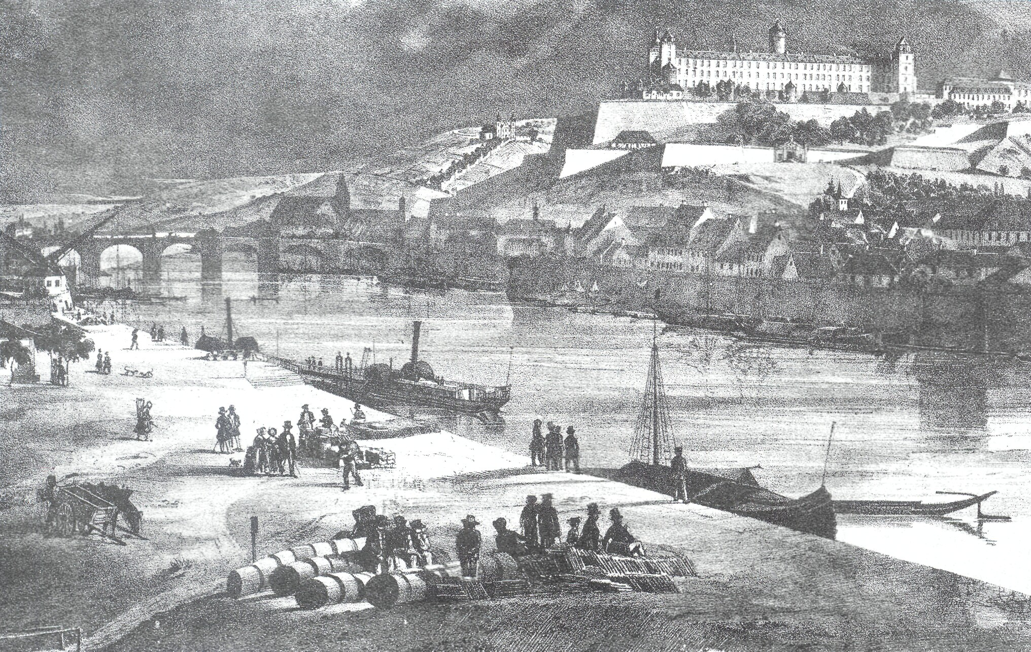 Würzburg in the year 1845